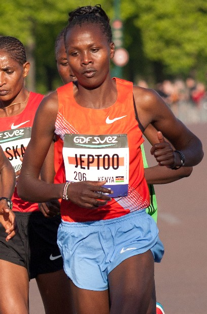 Priscah Jeptoo at the 2011 Paris Marathon at the 11 kilometer point.